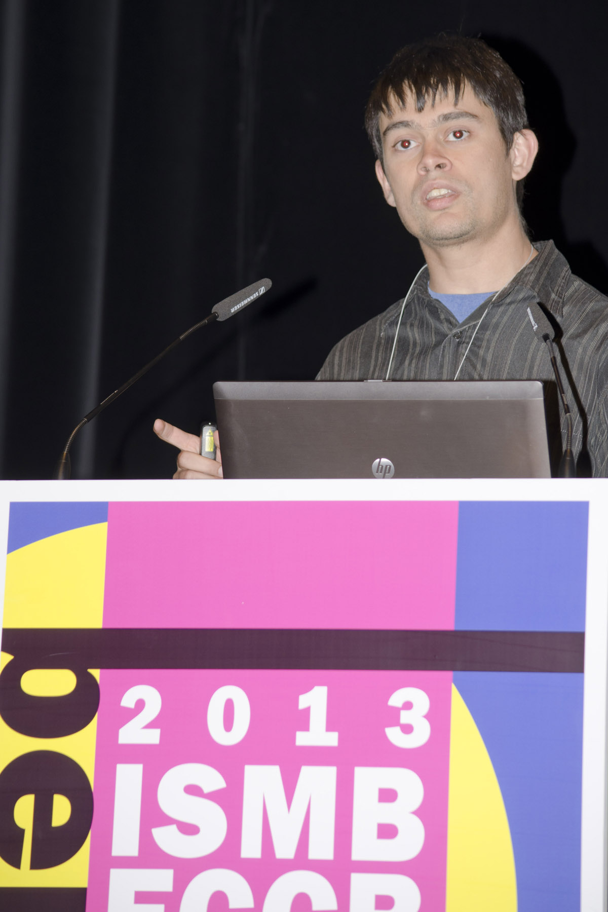 ISCB Overton Prize winner Goncalo Abecasis delivering his keynote talk at ISMB/ECCB 2013